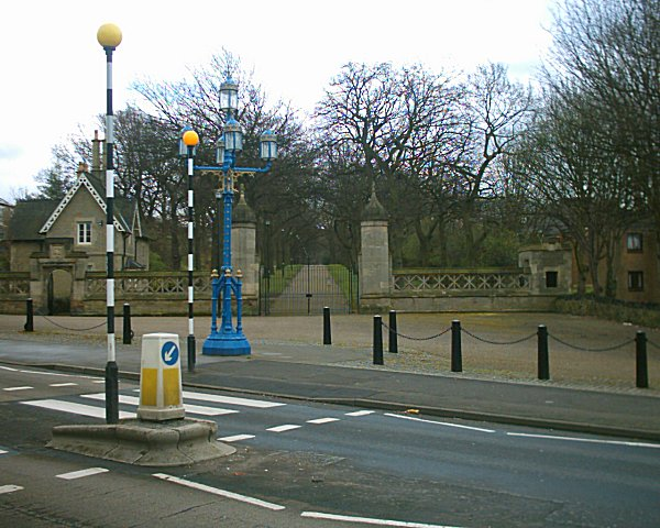 Granville Road entrance of Norfolk Park, Sheffield.